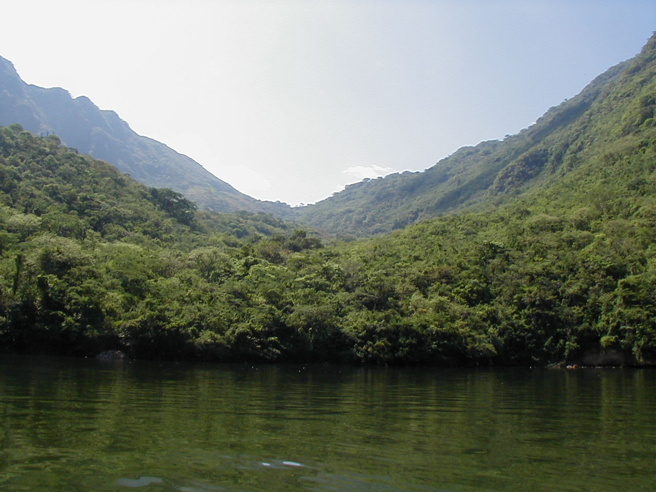 Sumidero Canyon Ecological Reserve in Sumidero Canyon — in the state of Chiapas, Southwestern Mexico. On the Grijalva River. Photo taken by Jami Dwyer